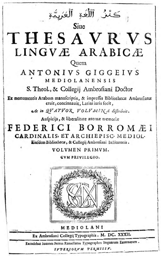 Cover of Latin Arabic dictionary - Antonio Giggeo 1632.